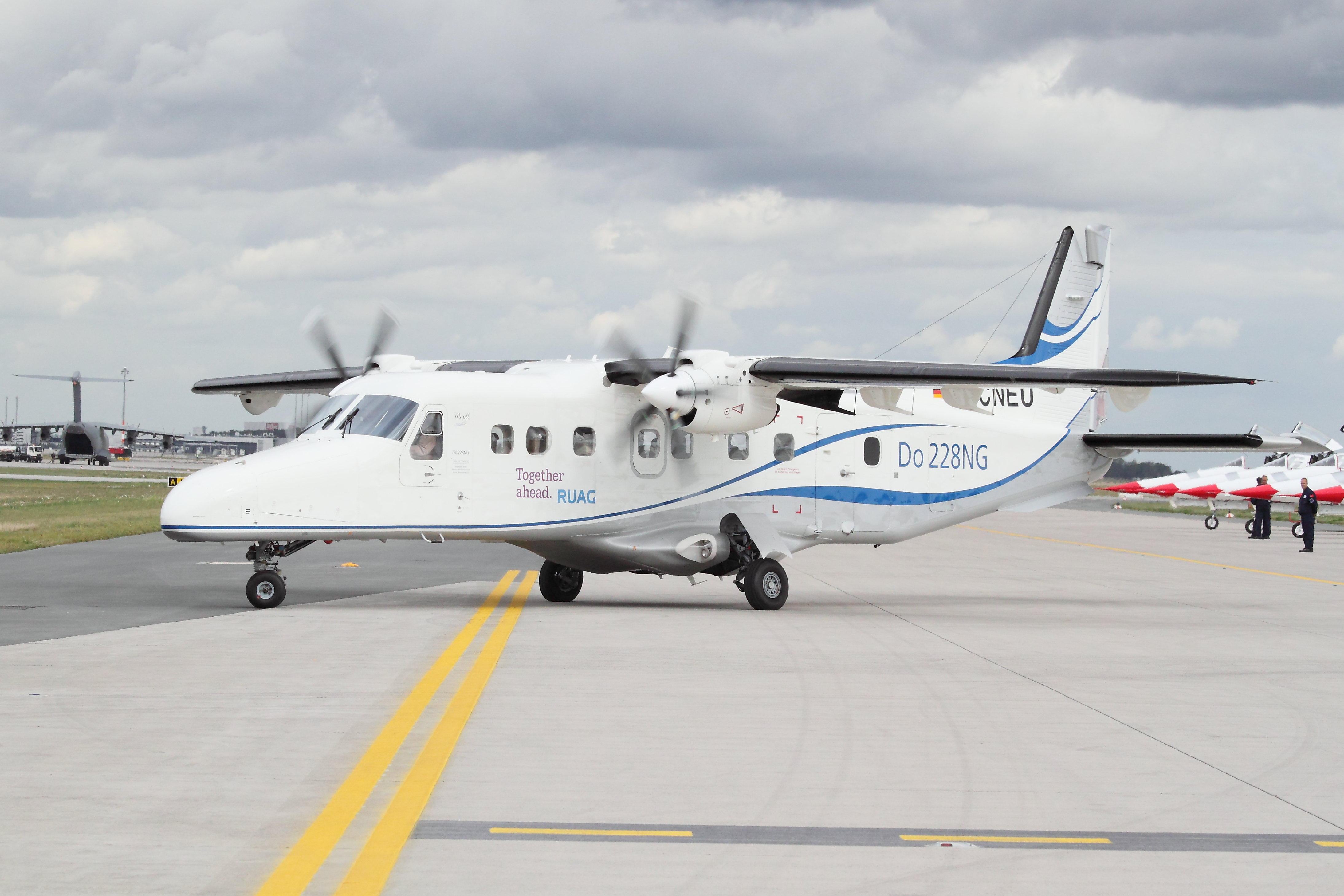 ILA Berlin Air Show 2012